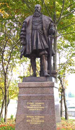 Albert, Duke of Prussia, founder of the University of Königsberg (Albertina), Kaliningrad